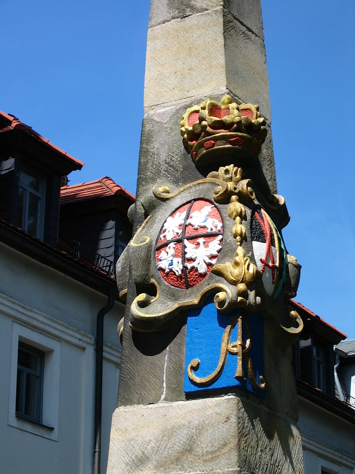 Freiberg, Saxony. A distance pillar of the Saxonian Mail from 1723 with the royal cypher of King Augustus II the Strong of Poland and the arms of Poland-Lithuania.